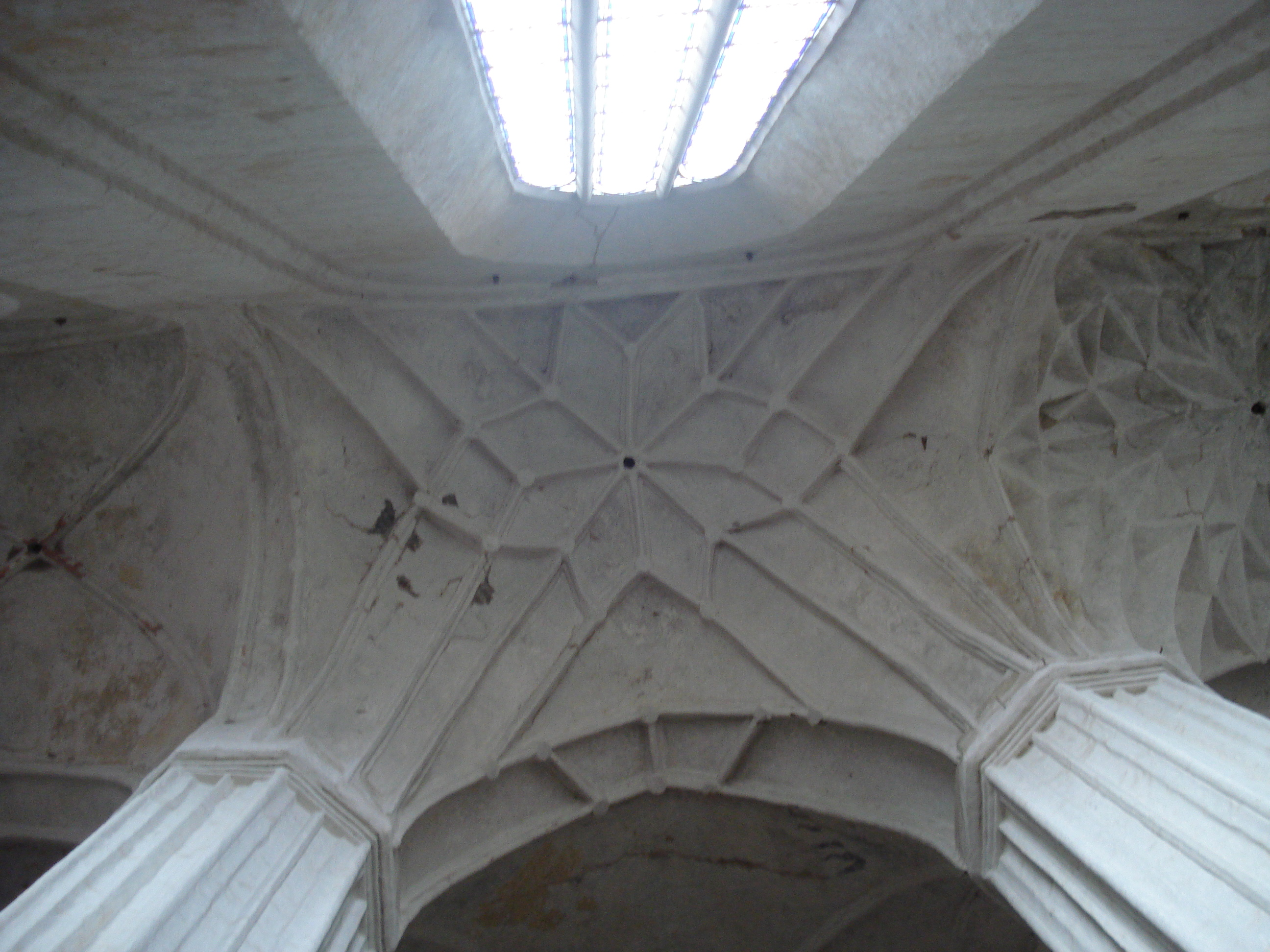 The Church of St. Francis of Assisi in Vilnius (Šv. Pranciškaus ir Bernardino, arba Bernardinų, bažnyčia; Kościół Śww. Franciszka i Bernardyna; Maironio 10). Fragment of the ceiling